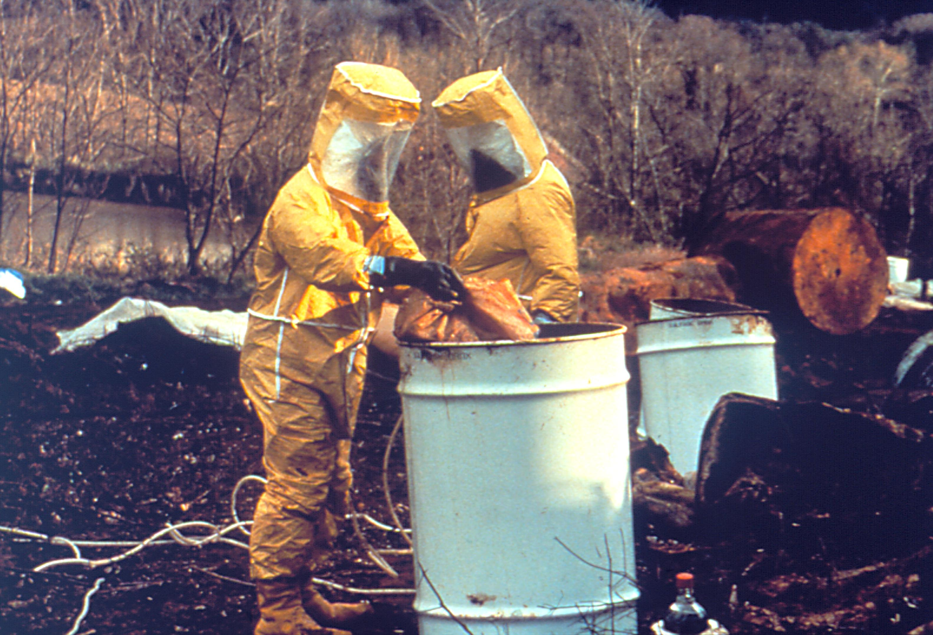 Protective Clothing. Workers in protective clothing to guard against contamination from hazardous waste.